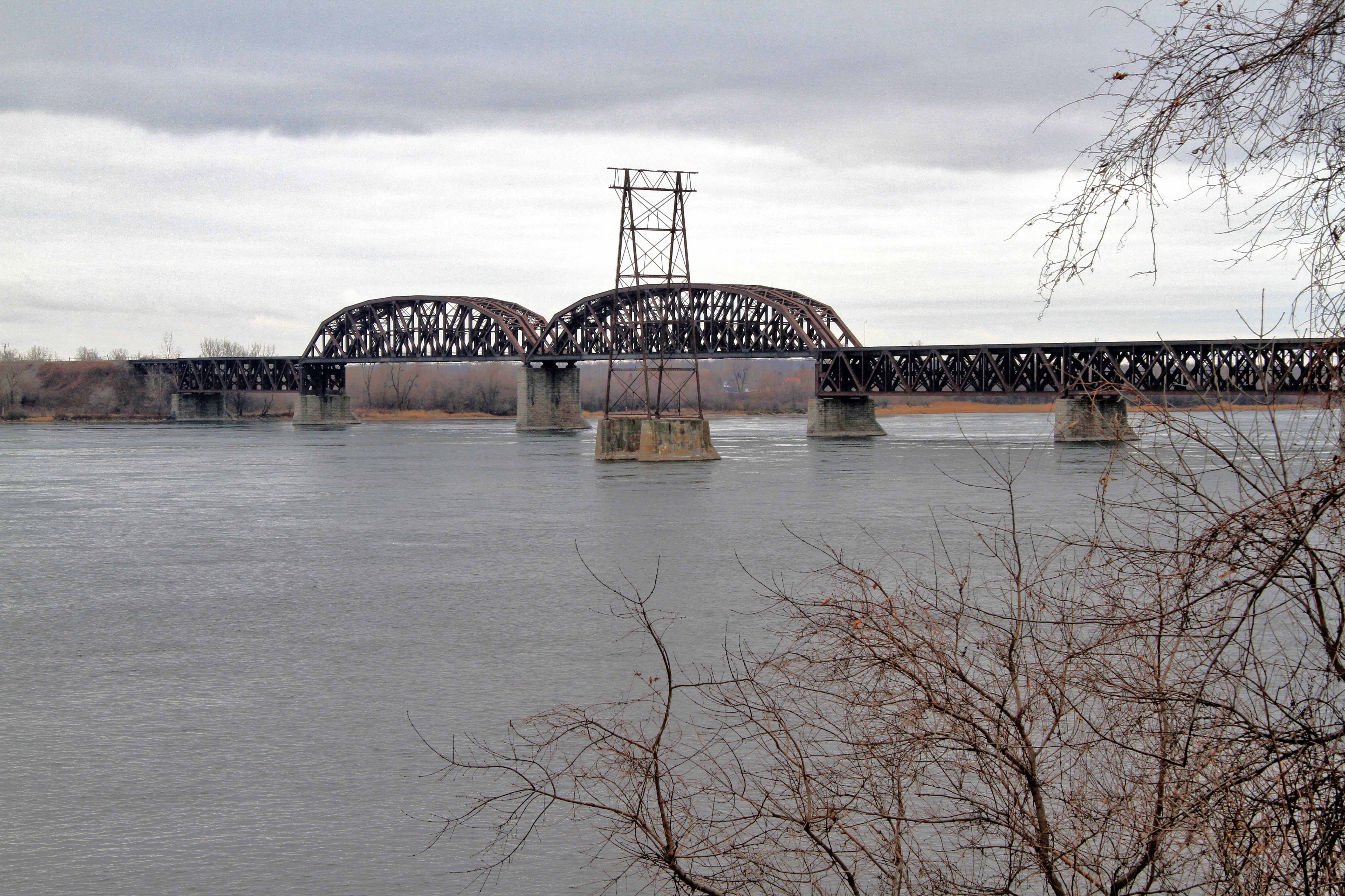 Saint Laurent Railway Bridge in LaSalle, Montreal, Quebec, Canada/